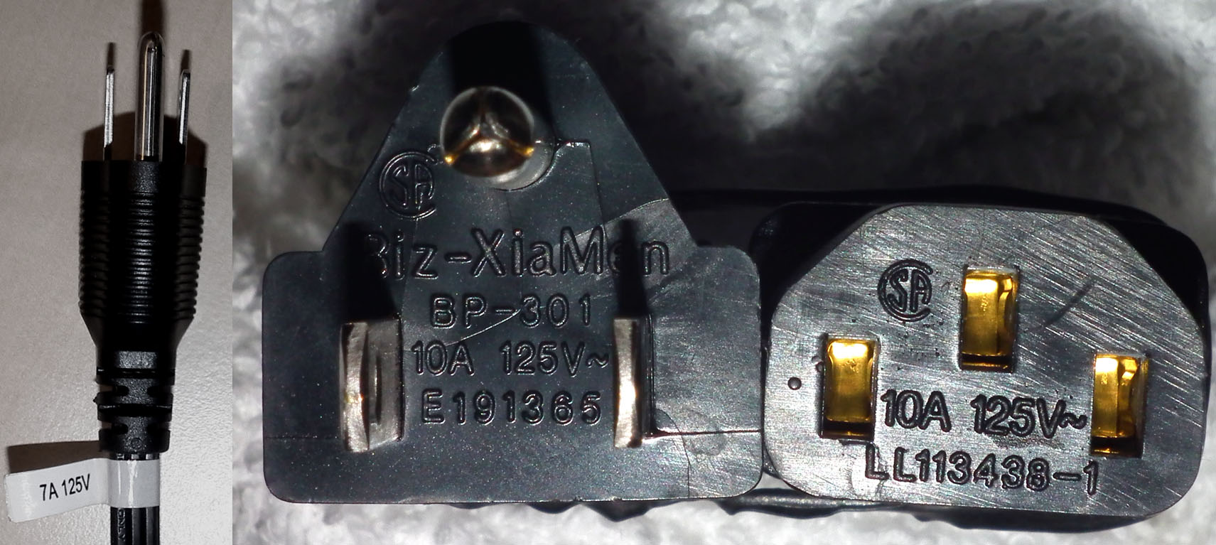 NEMA 5-15 (type B) plugs with current and voltage ratings shown (left) on label (7A 125V) and (centre) on engagement face (10A 125V) . Also shown (right) is the rating on the C13 connector at the other end of the 10A 125V appliance cord.